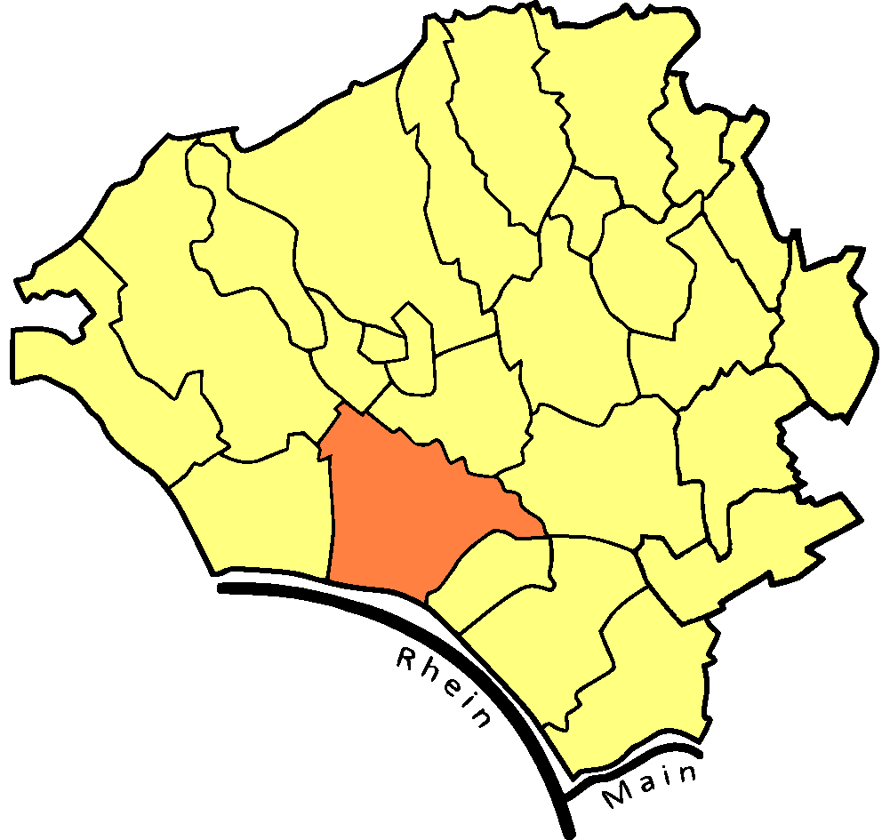 Map of Wiesbaden showing the location of Biebrich